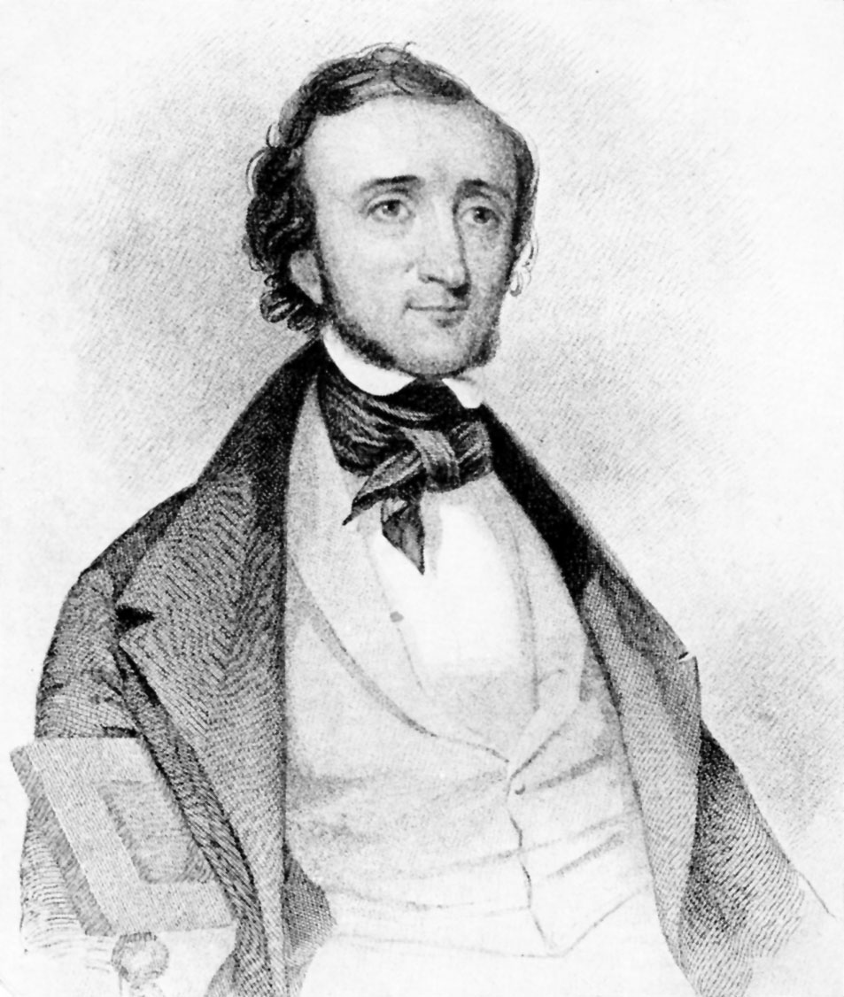 Young image of Edgar Allan Poe